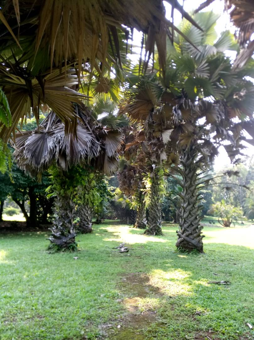 A view of the African fan palms ( Borassus Aethiopum) in the Limbe botanical gardens, South West Region of Cameroon